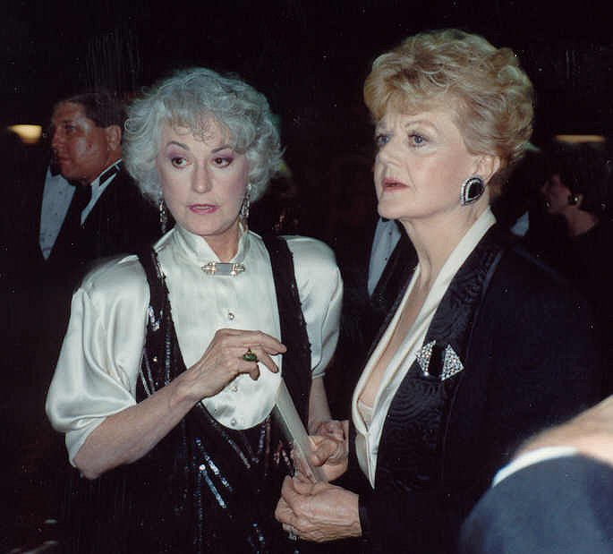 Photo taken at the 41st Emmy Awards 9/17/89 - Permission granted to copy, publish or post but please credit "photo by Alan Light" if you can